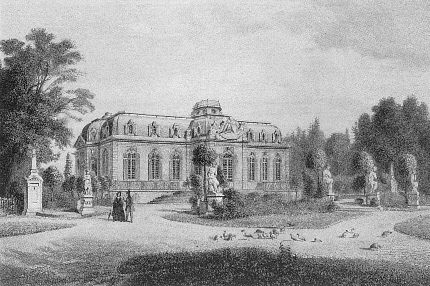 Steel engraving of Schloss Benrath in Düsseldorf